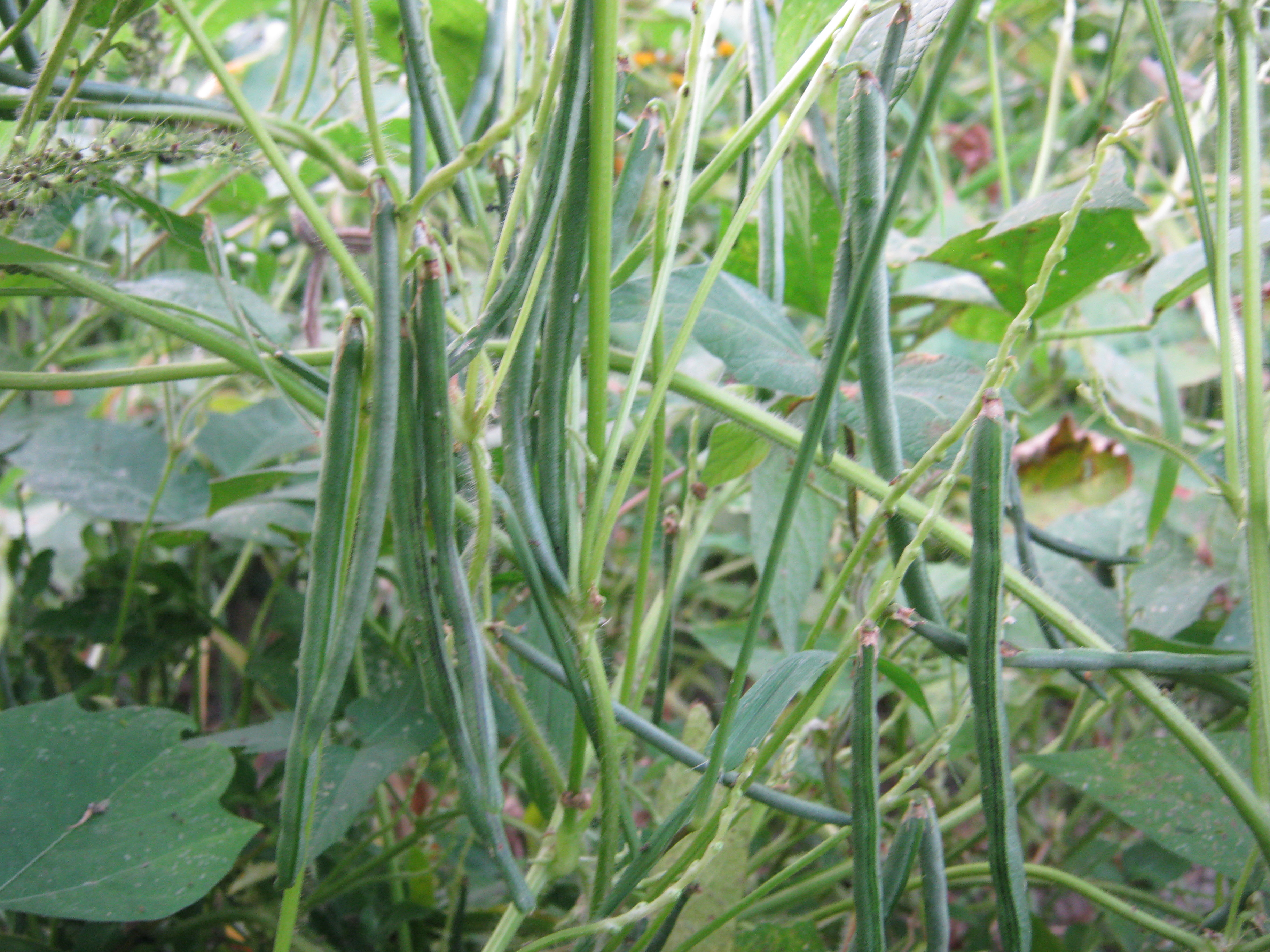 Vigna umbellata in Panchkhal VDC, Nepal.